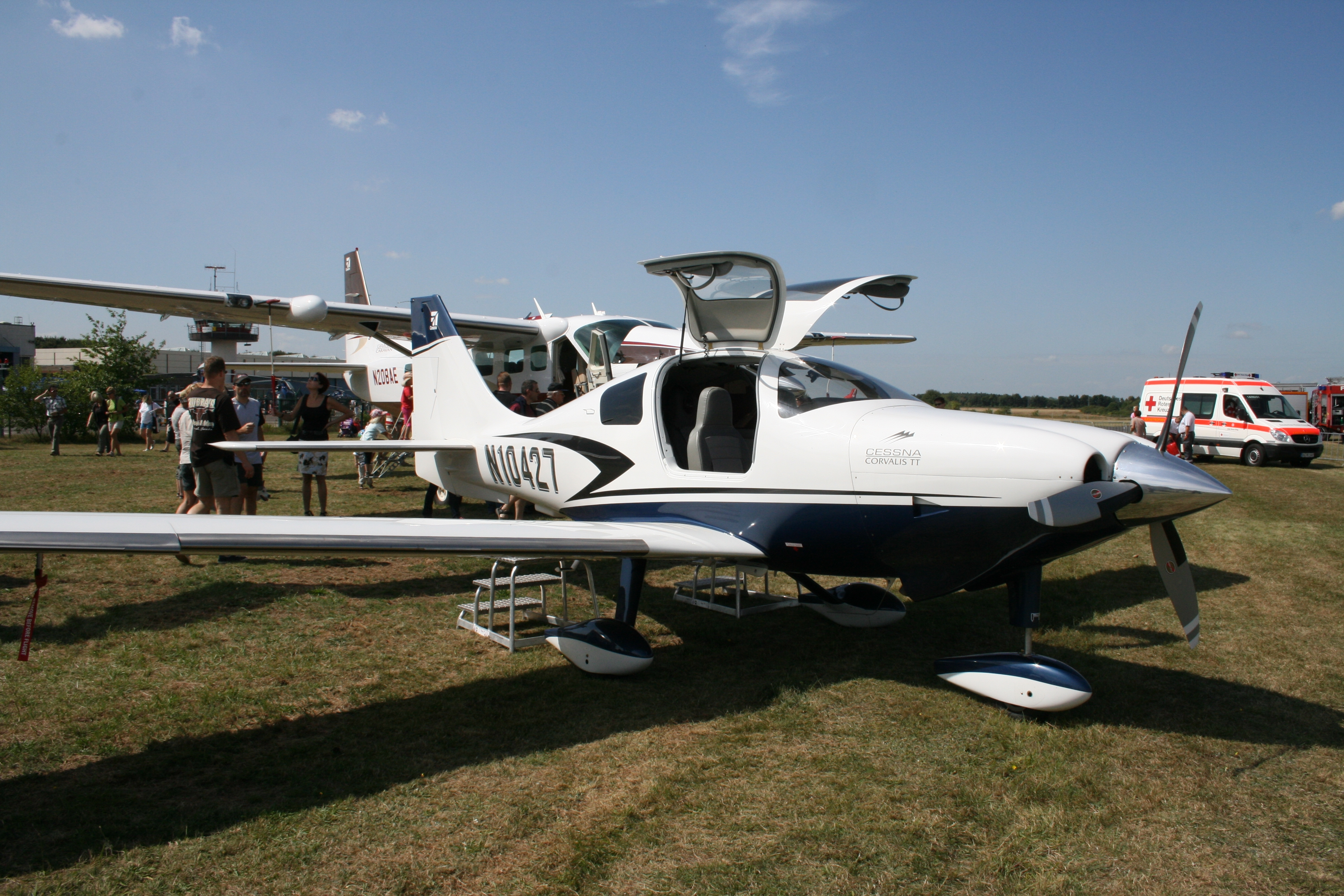 airplane Cessna Corvalis TT on german airfield Bonn-Hangelar; Registration: N10427